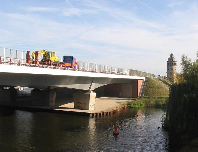 Bridge of Berlins circular Autobahn over the Dahme River between Wildau and Niederlehme. In the background the water tower in Niederlehme, landmark of the village and of the Autobahn, built in 1902 out of sand-lime brick, modelled on the Galata Tower in Istanbul. Niederlehme is a part of the town Königs Wusterhausen in the district Dahme-Spreewald, state Brandenburg, Germany.